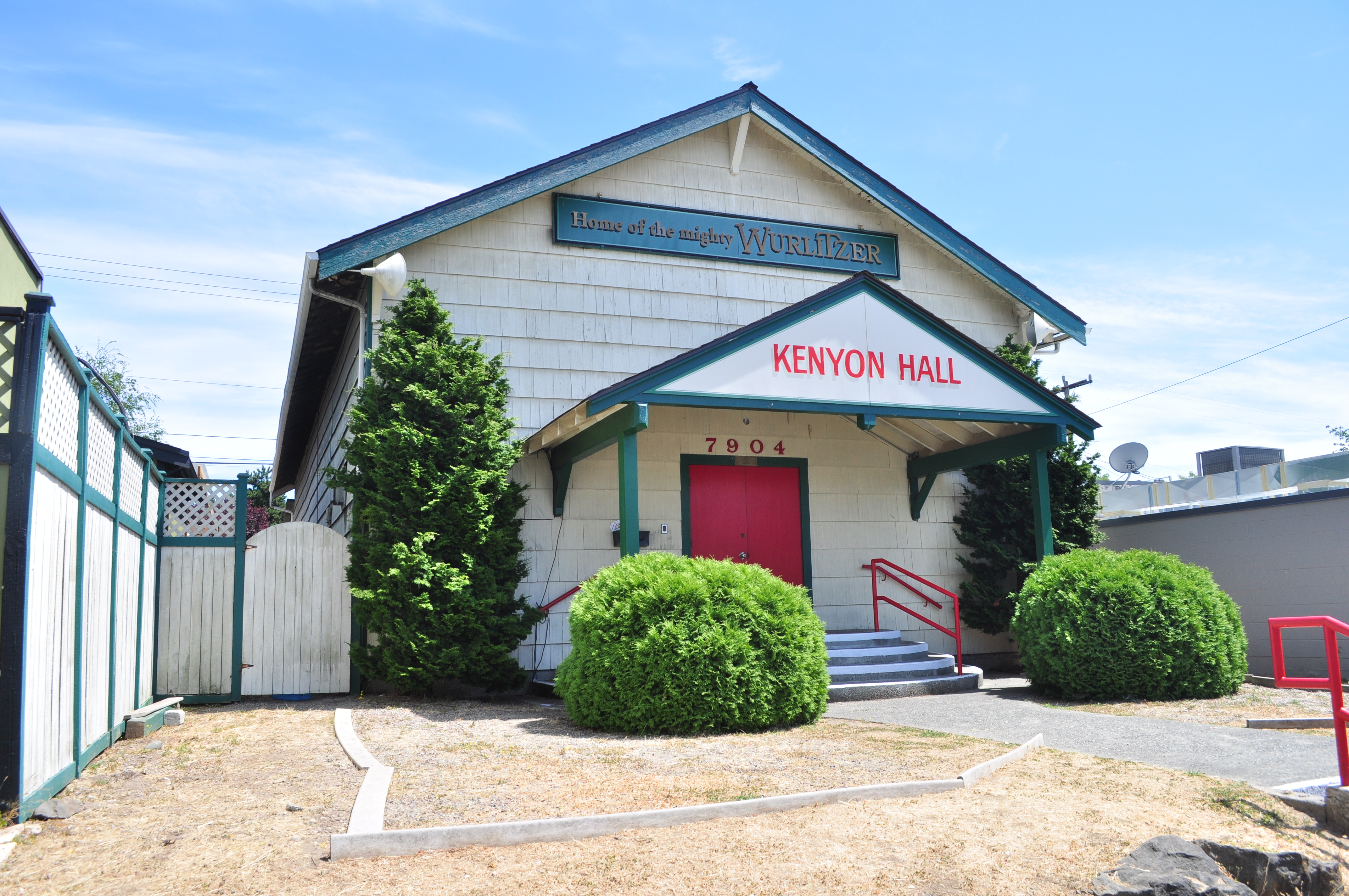 Kenyon Hall, 7904 35th Ave SW, Seattle, Washington in the Roxhill portion of the Delridge neighborhood.